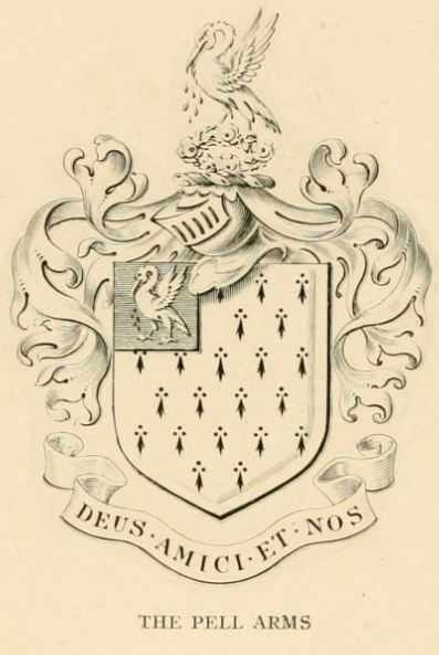 The Pell Arms